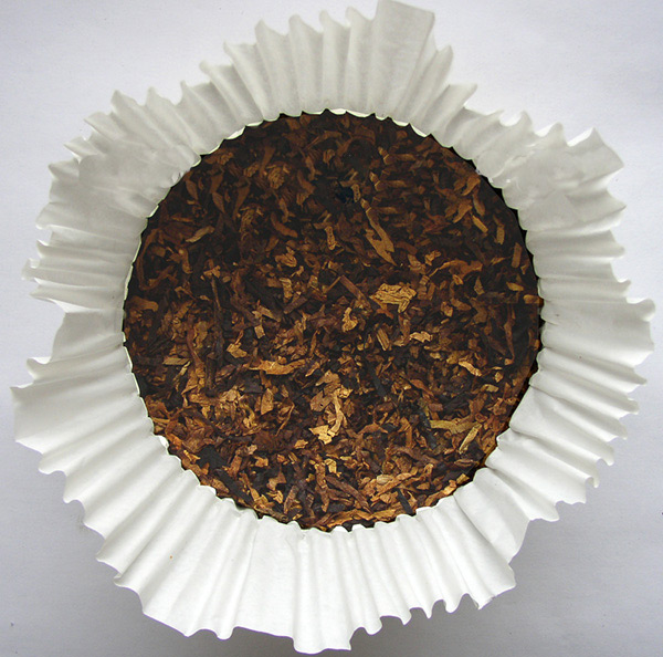 Pipe tobacco in can